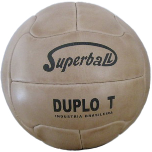 Duplo T - FIFA World Cup ball 1950